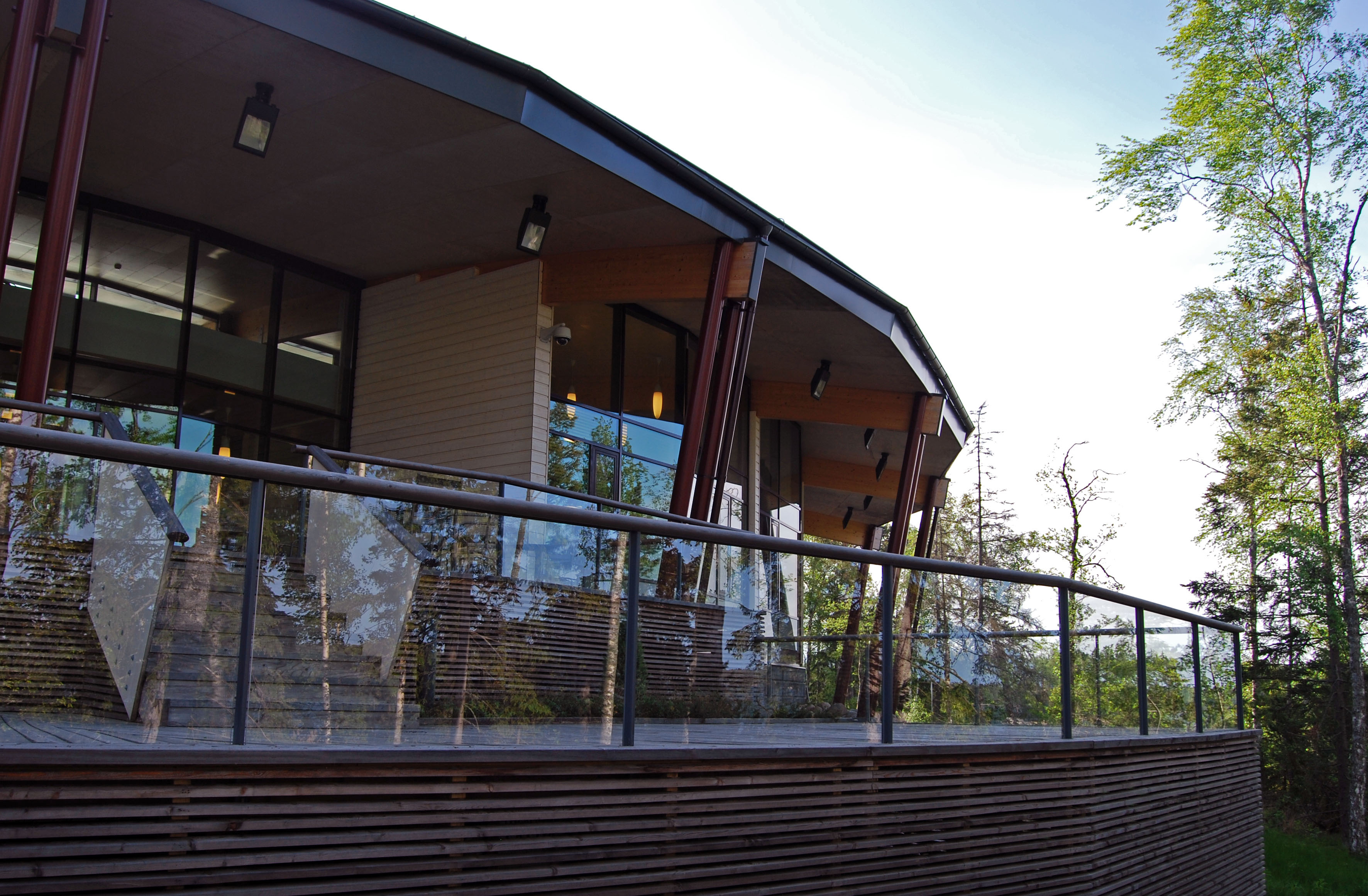 Olkiluoto Nuclear Power Plant Visitor Centre